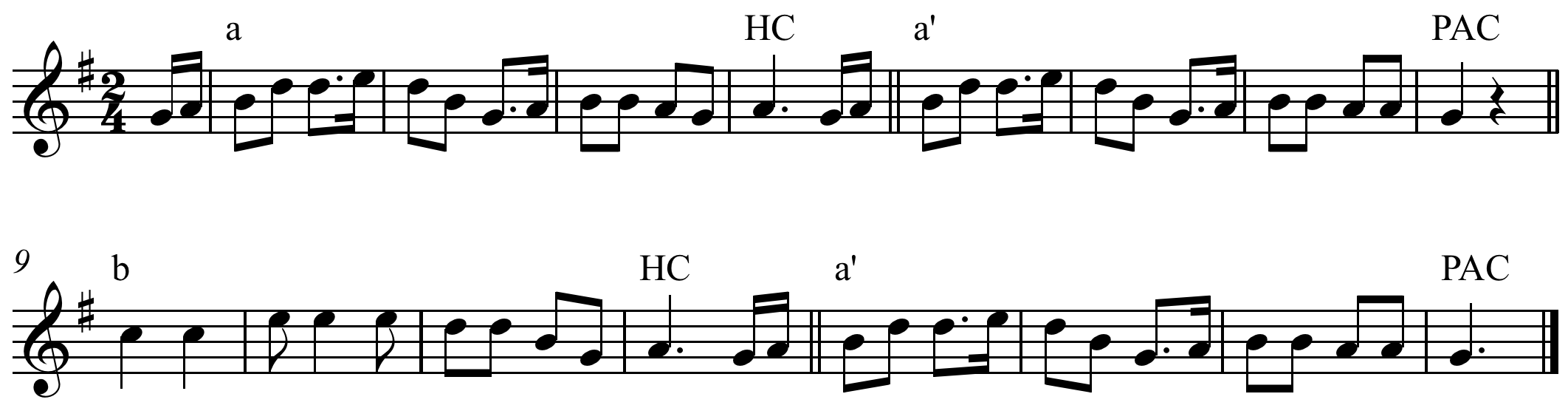 "Oh, Susannah" is an example of rounded binary form: A-B-½A.